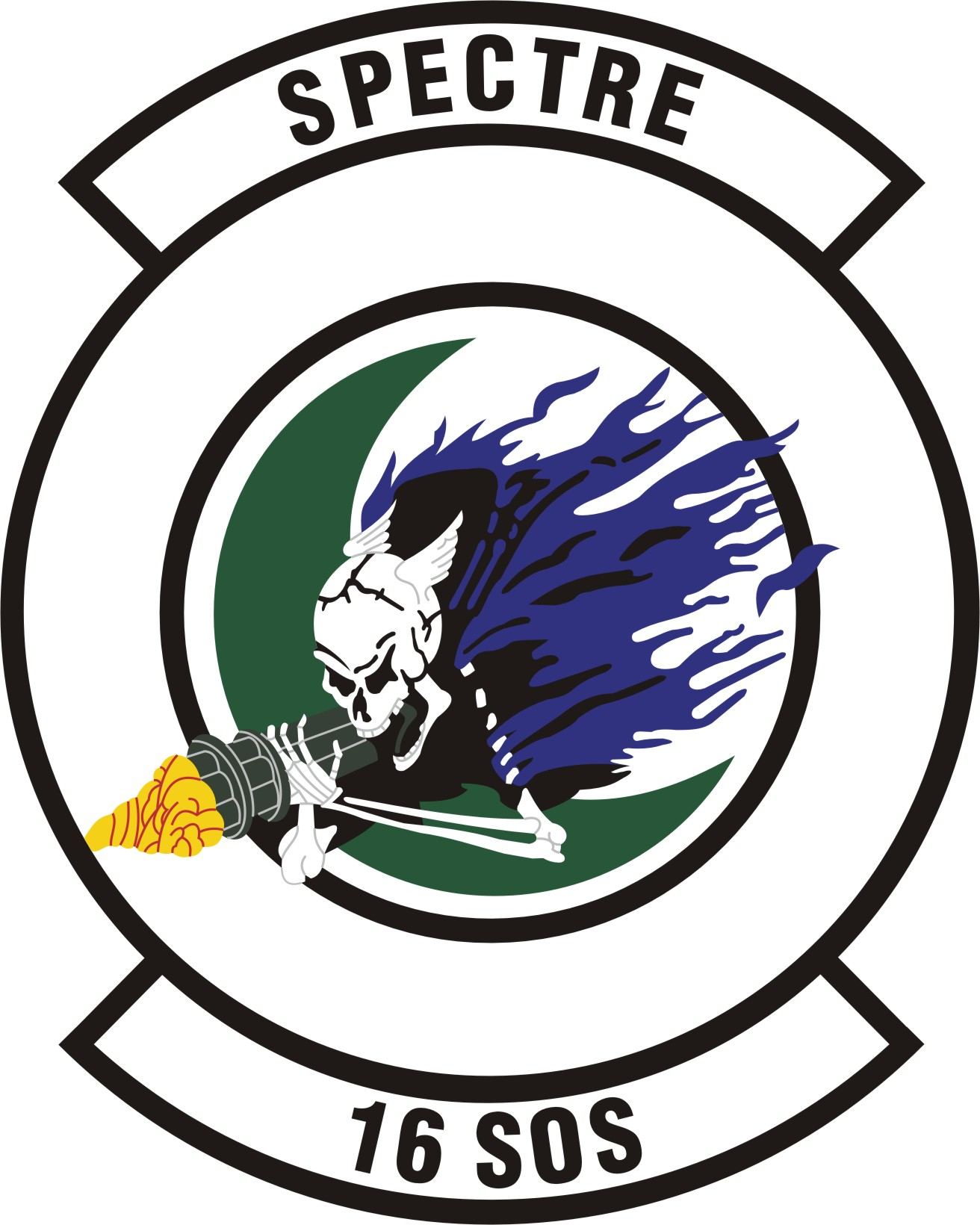 16th Special Operations Squadron emblem